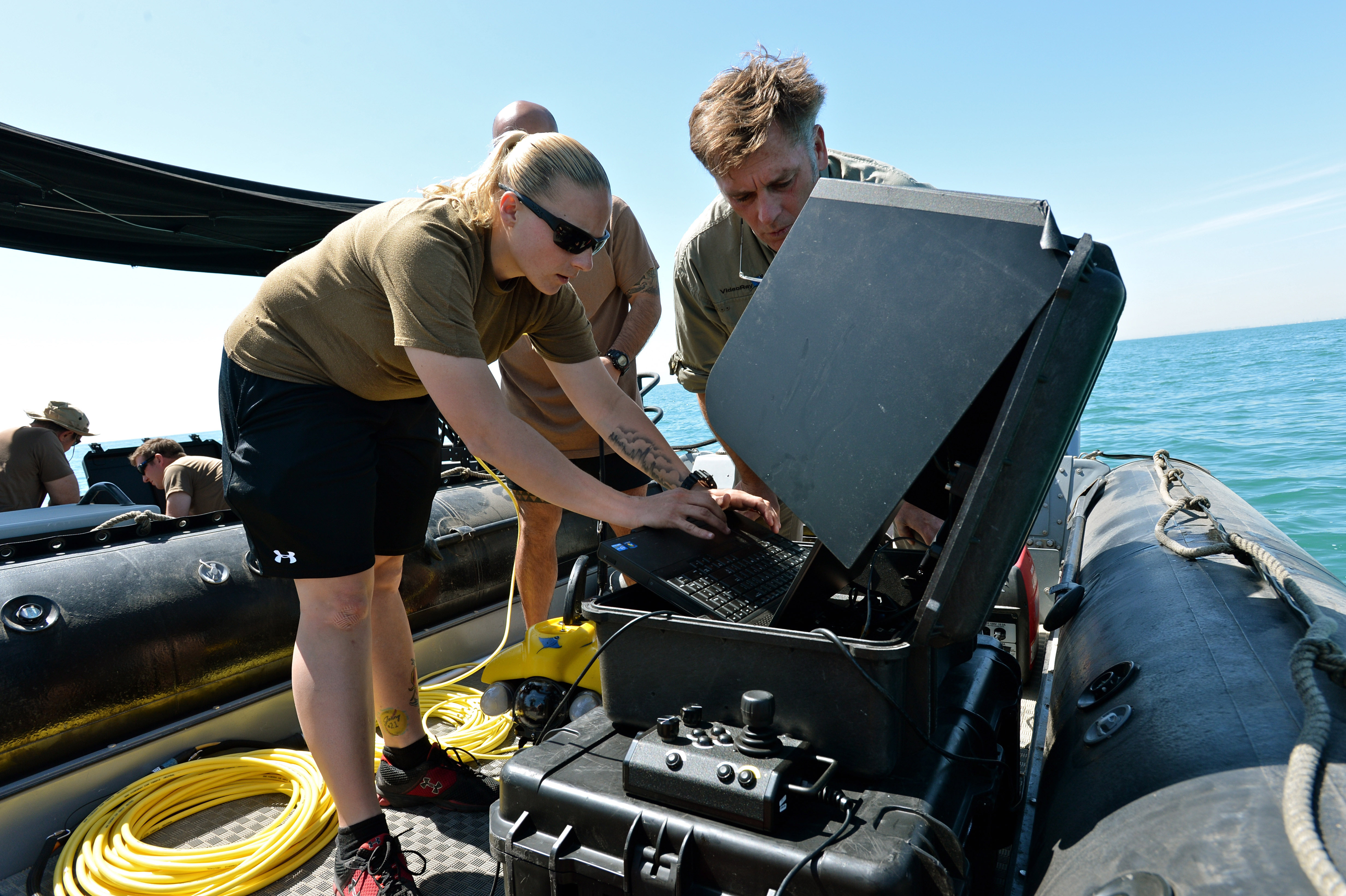 Boatswain's Mate 2nd Class Jennifer Kwiatkowski, left, Chief Boatswain's Mate Chad Leorin, both assigned to Commander, Task Group 56.1, and Mark Fleming, a VideoRay technical representative, operate a SeeByte, an unmanned underwater vehicle as part of a familiarization evolution, March 18. CTG-56.1 conducts mine countermeasures, explosive ordnance disposal, salvage-diving and force protection operations throughout the U.S. 5th Fleet area of responsibility. (U.S. Navy photo by Mass Communication Specialist 2nd Class Taylor M. Smith/Released)